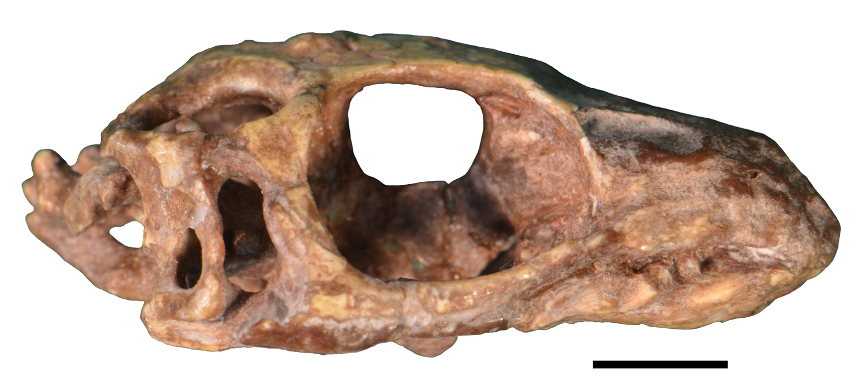 Holotype (AM 3585) of Paliguana whitei, the oldest known lepidosauromorph from the Early Triassic of South Africa, in right lateral view. Scale bar equals 5 mm.